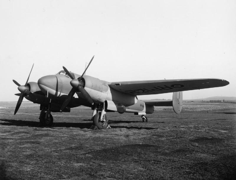 A Royal Air Force Bristol Buckmaster T Mk.I (RP122) of No. 1 Flight, D Squadron of the Aeroplane and Armament Experimental Establishment, at Boscombe Down, Wiltshire (UK).